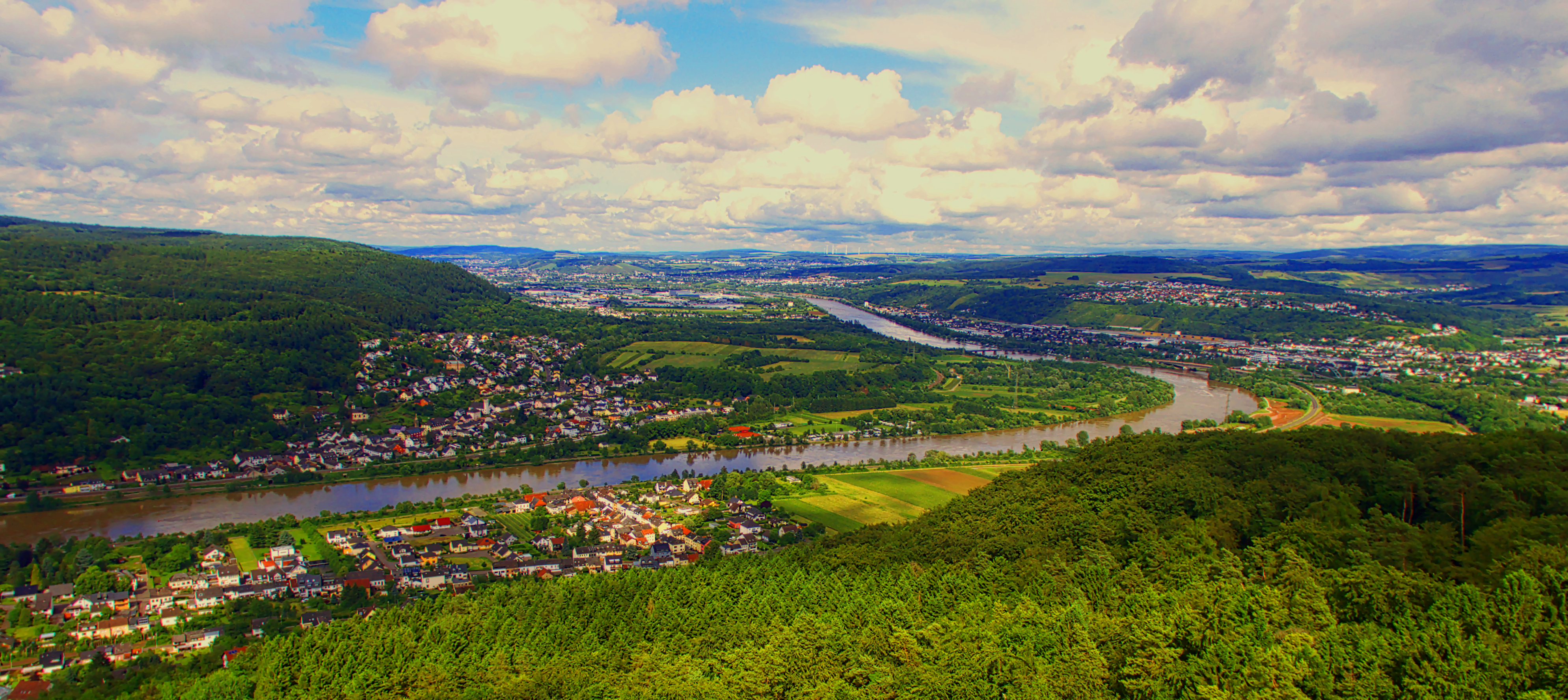 Moselle river, Germany. So called "Trierer Talweite". Taken from a place near "Löschemer Chapel", Wasserliesch